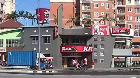 KFC Sungai Besi Toll Drive Thru